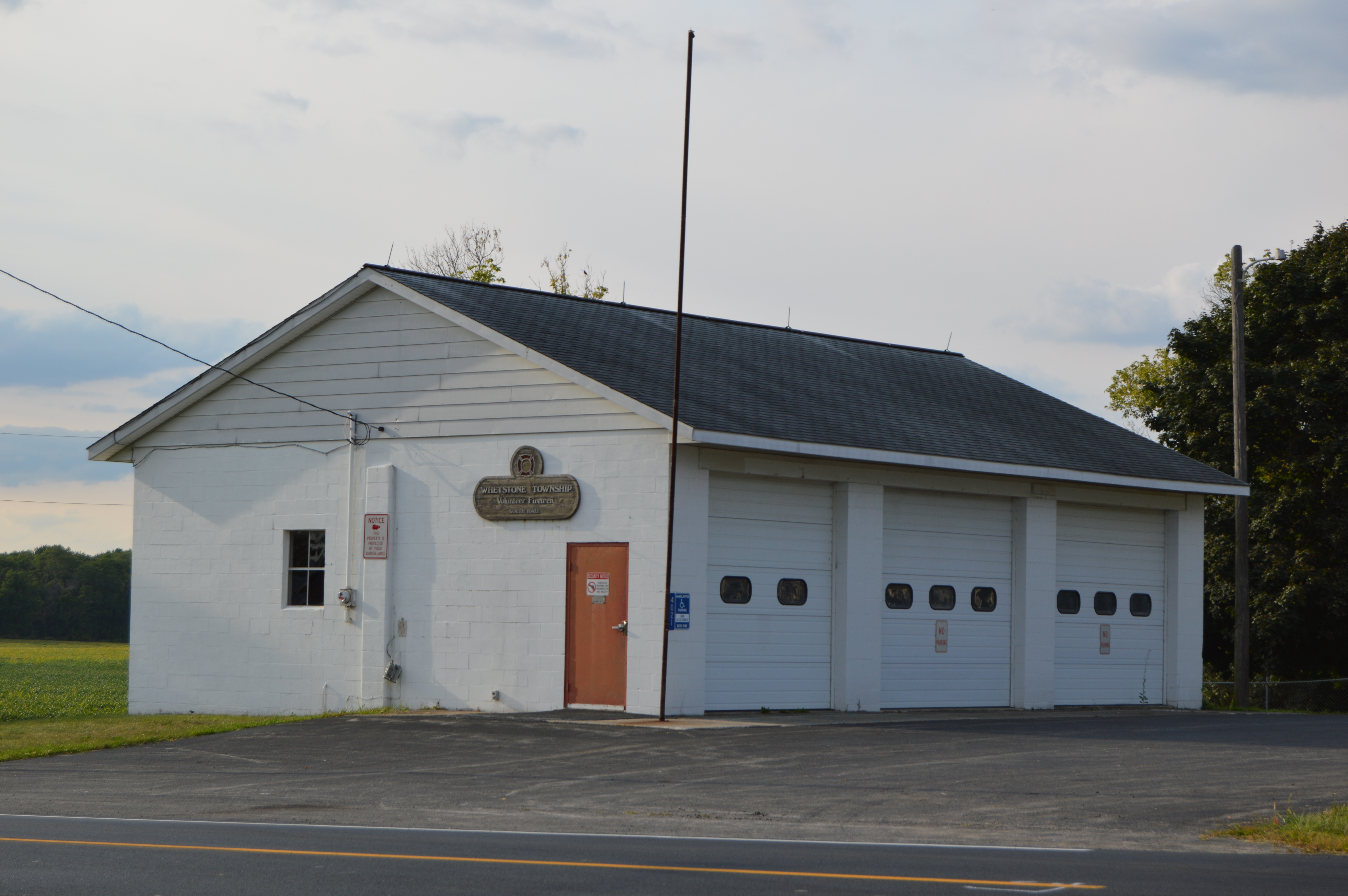 Front of the Whetstone Township fire department, located at 4021 Monnett-New Winchester Road in New Winchester, Ohio, United States.